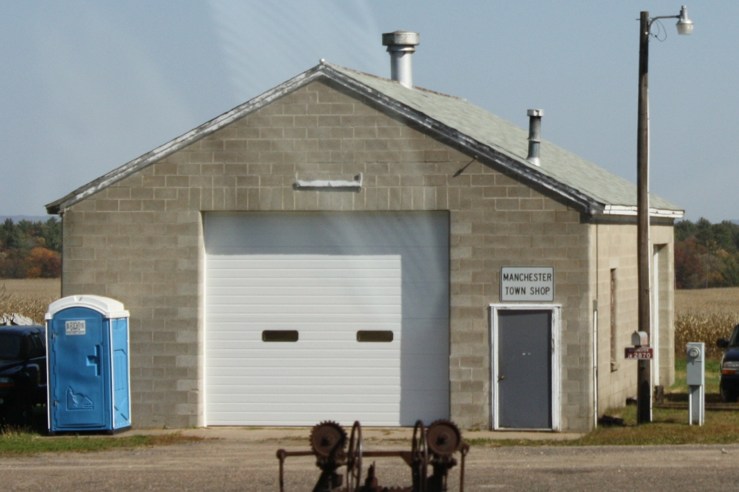 The town hall for Manchester, Jackson County, Wisconsin on Wisconsin Highway 27.